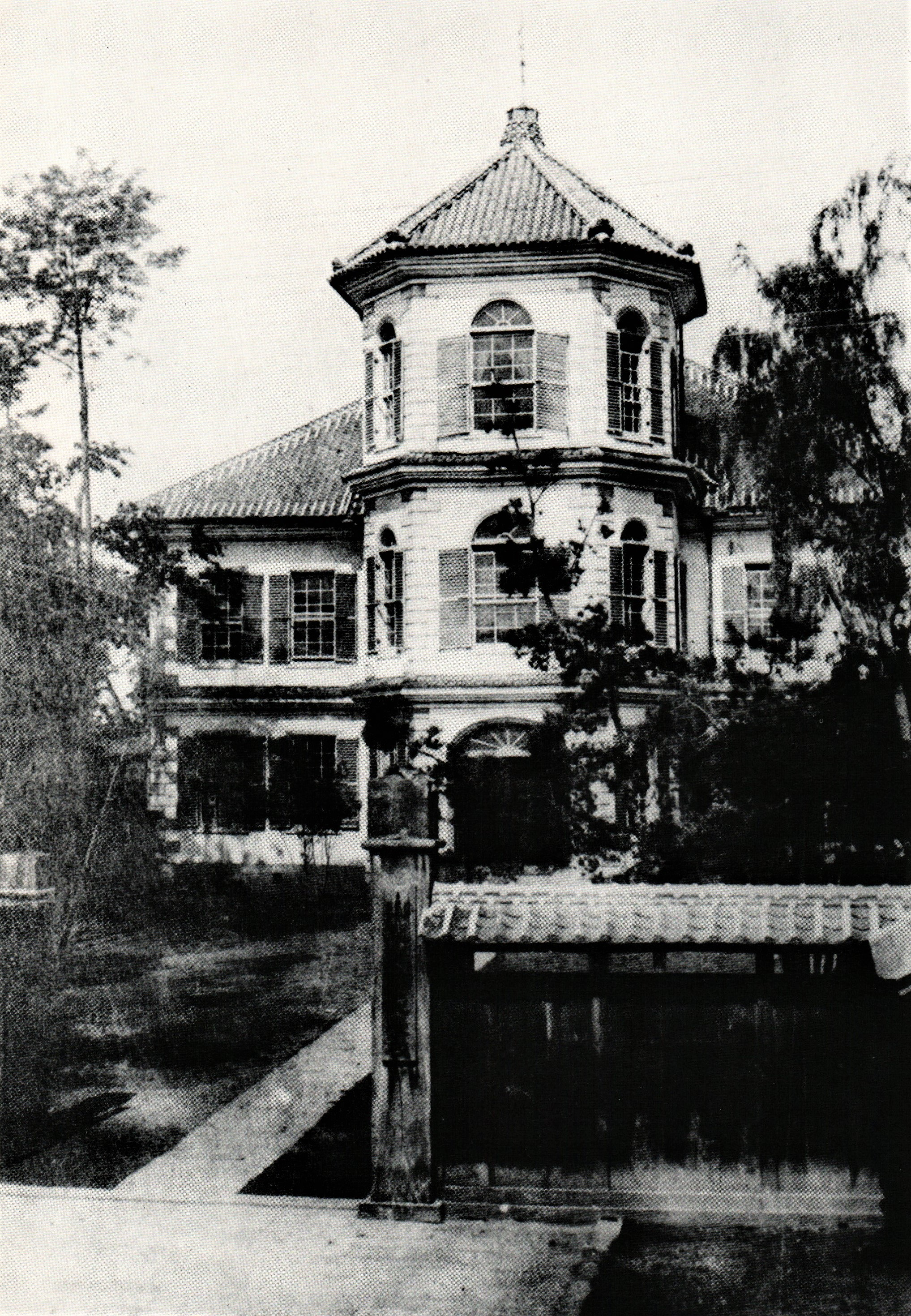 Kitenkan Yamanashi prefecture normal school 1884